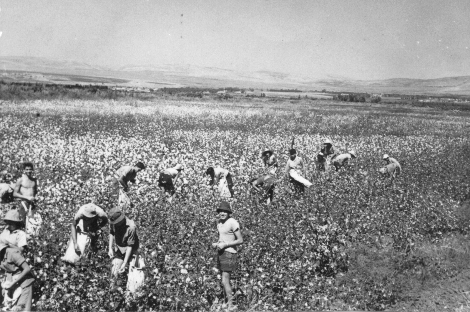 Cotton fields of Shamir: Picking manually